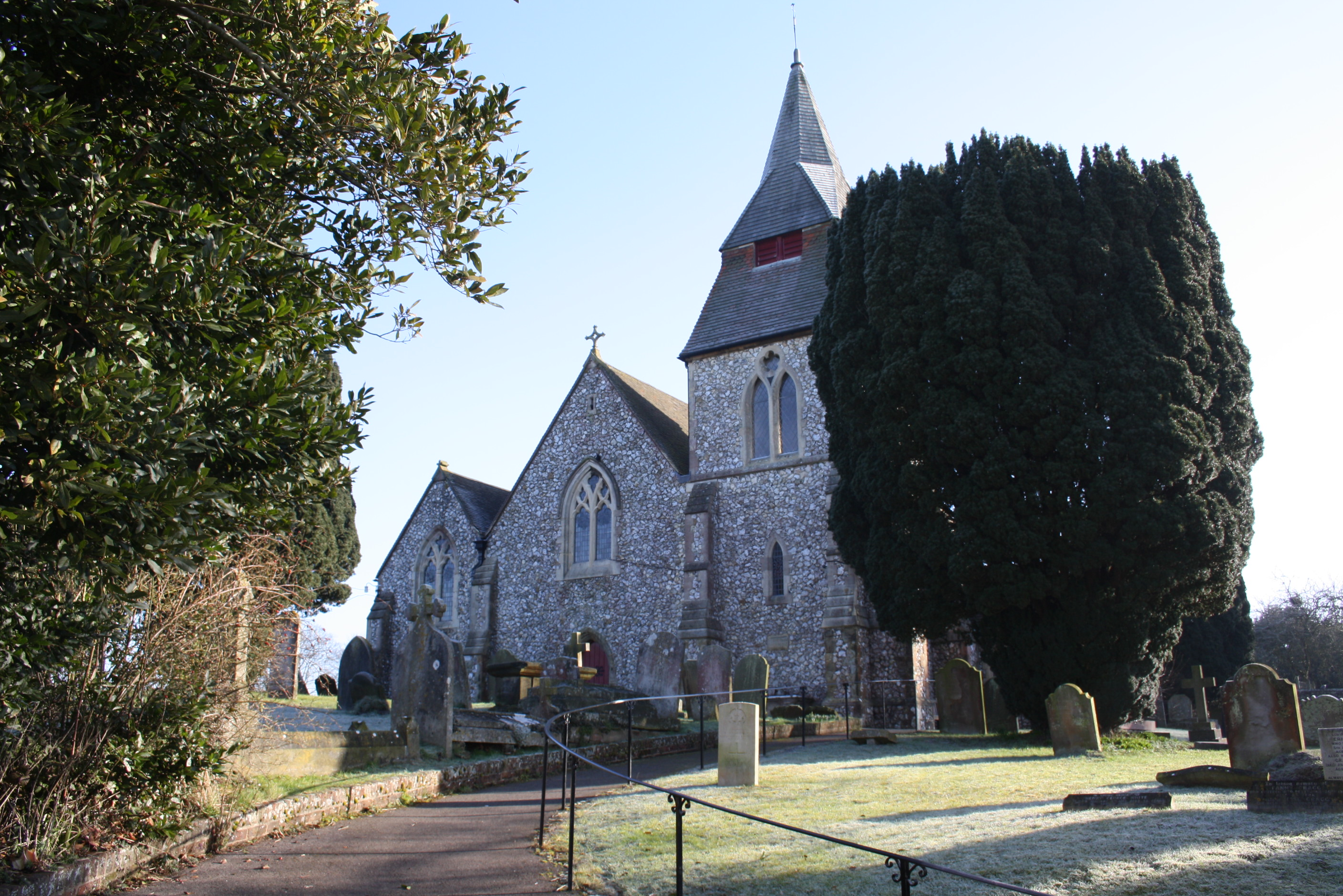 St Cosmas and St Damian Church from the main entrance